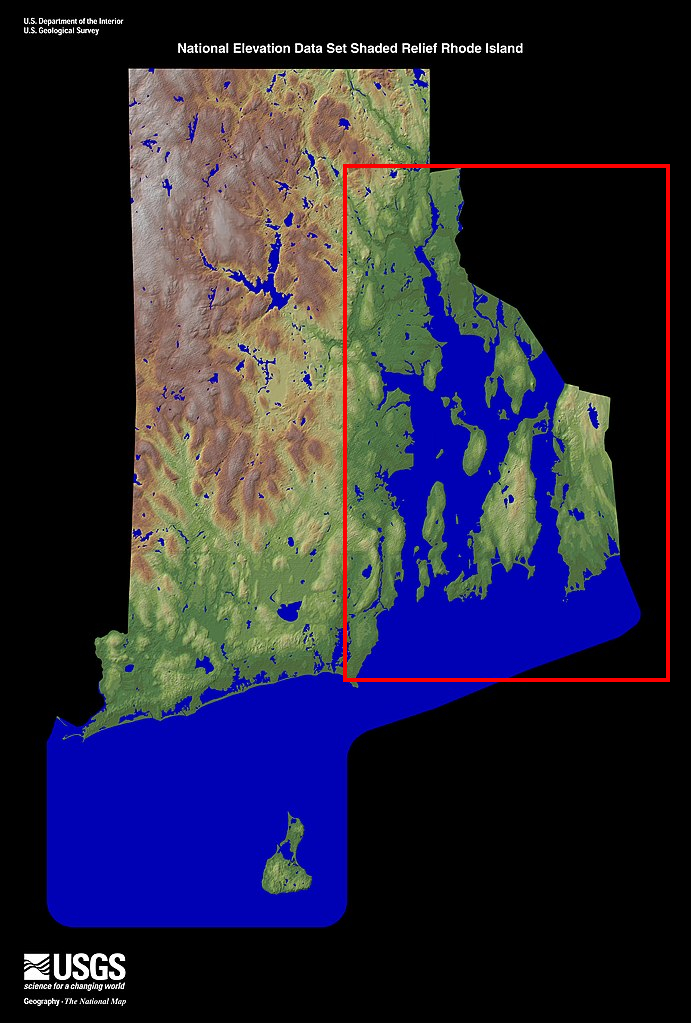 Shaded relief map of the state of Rhode Island with Narragansett Bay in red.. From the United States Geological Survey (USGS)